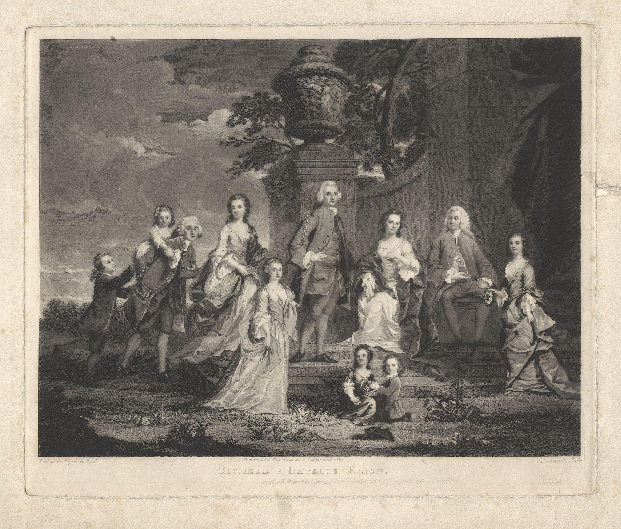 Richard & Harriot Eliot, and all their Children, with Mrs. Goldsworthy & the Hon Captn. J. Hamilton. All images in this batch have been confirmed as author died before 1939 according to the official death date listed by the NPG.